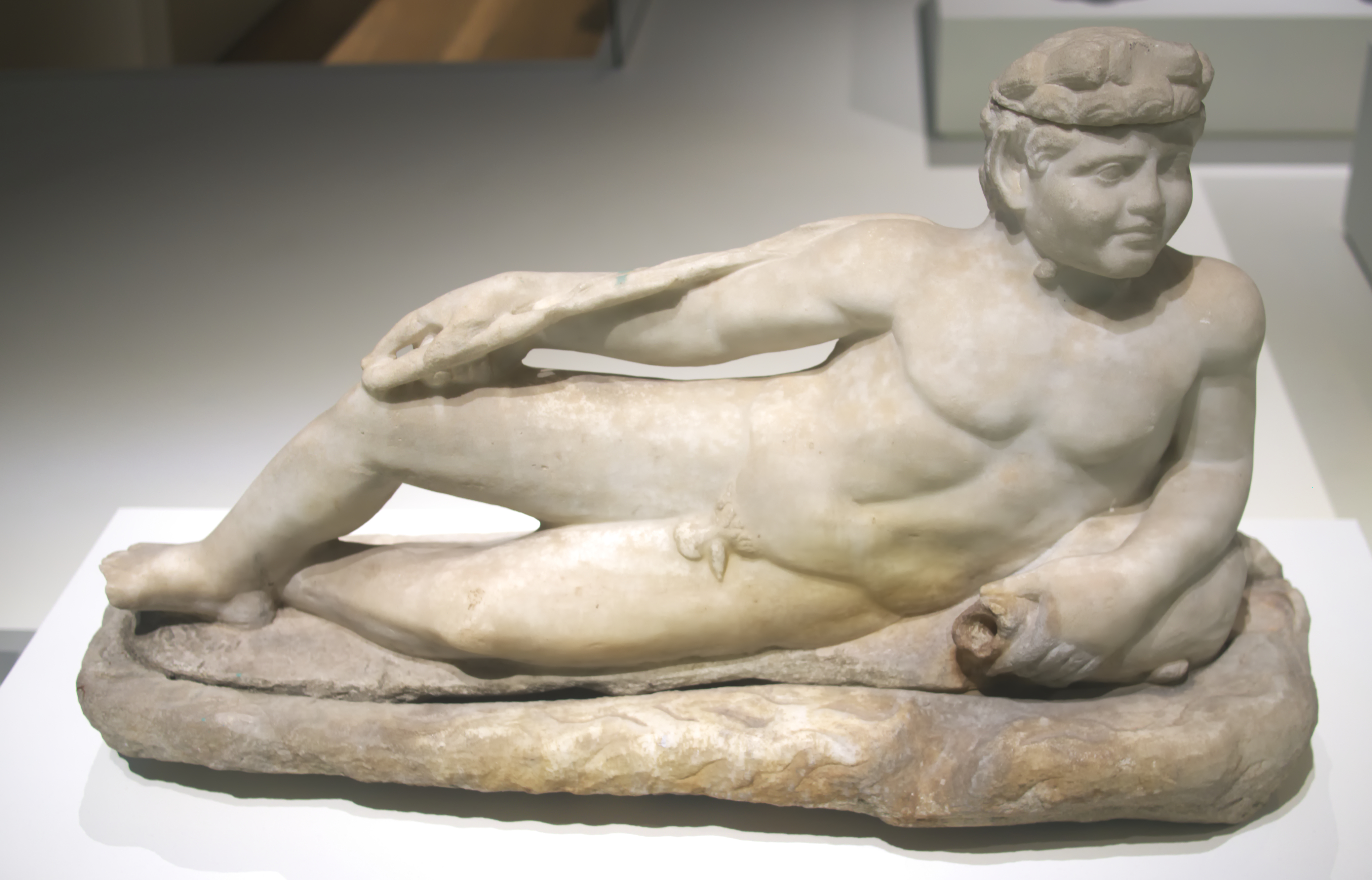 photograph taken during the temporary exposition that took place at the MuCEM of Marseille in august 2014.